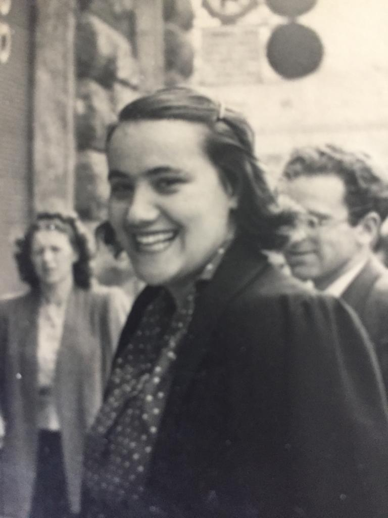 A portrait of Matilde Cassin in Florence after the war around 1946